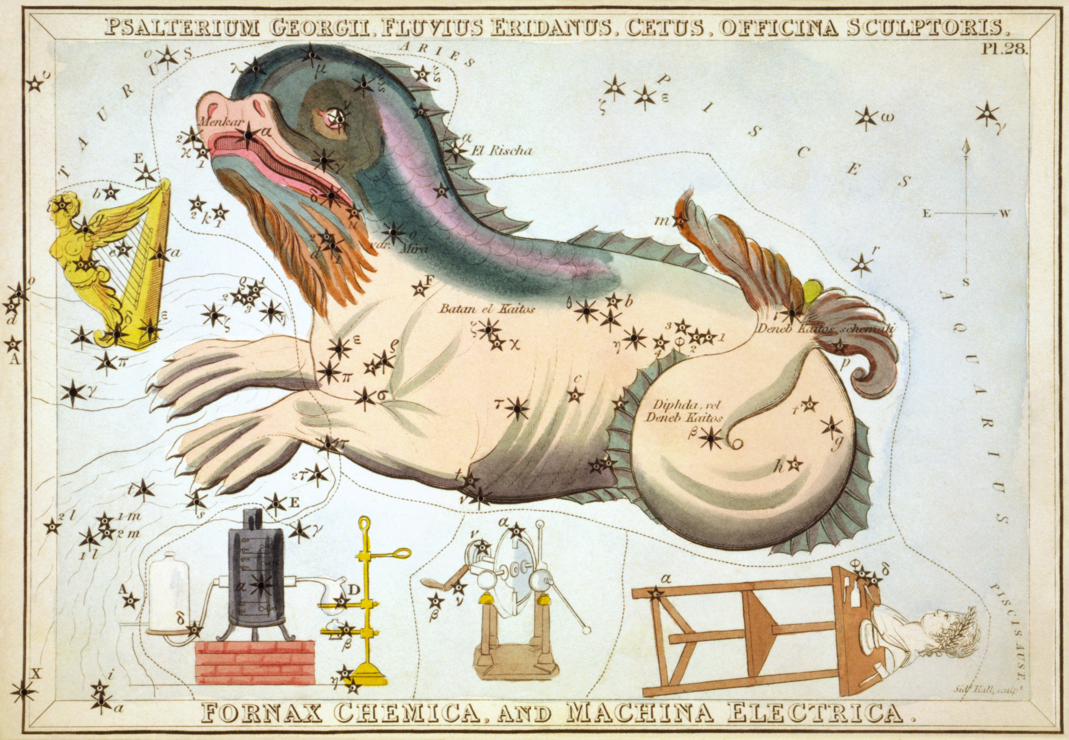 "Psalterium Georgii, Fluvius Eridanus, Cetus, Officina Sculptoris, Fornax Chemica, and Machina Electrica", plate 28 in Urania's Mirror, a set of celestial cards accompanied by A familiar treatise on astronomy ... by Jehoshaphat Aspin. London. Astronomical chart showing Perseus holding bloody sword and the severed head of Medusa forming the constellation. 1 print on layered paper board : etching, hand-colored. Note: This card was printed slightly off-centre to include more stars in Eridanus, hence the slightly unbalanced crop.